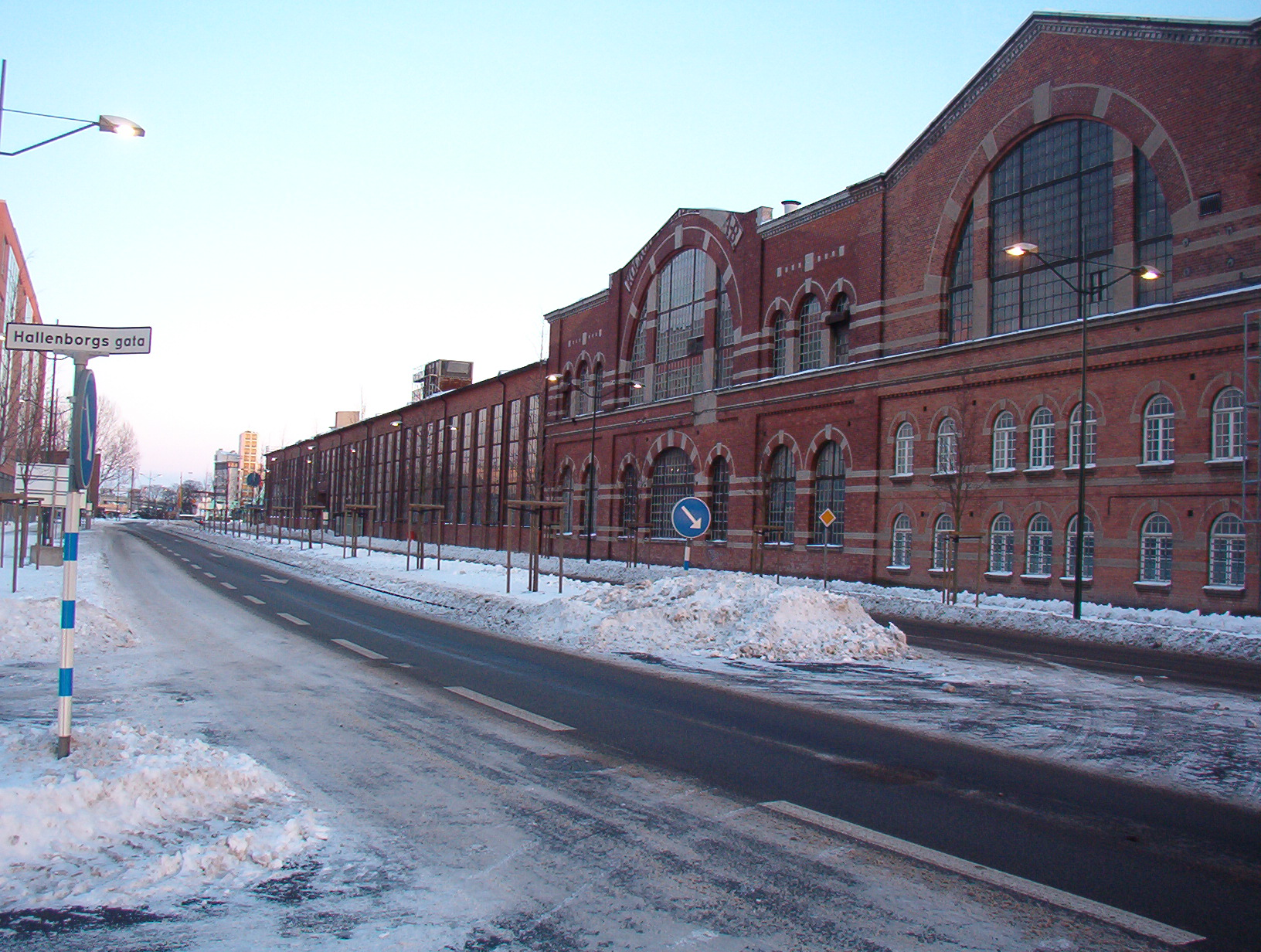 Malmö, Sweden. A building of Kockums AB, the ship yard. The building is now abondoned. In the far back of the building is a clock that always shows 12:00. Date: Jan. 2006